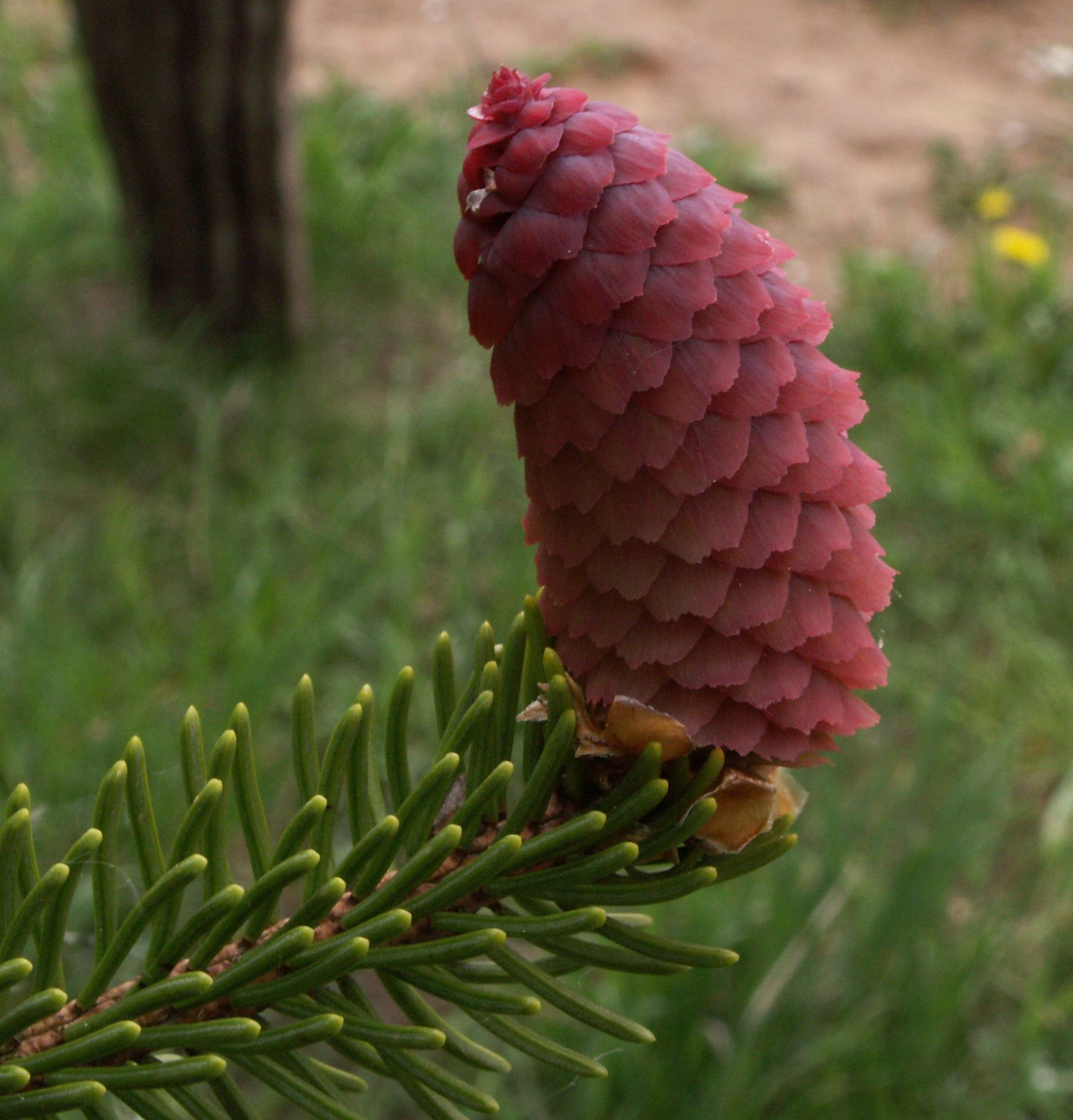 Picea abies, female flowers, red